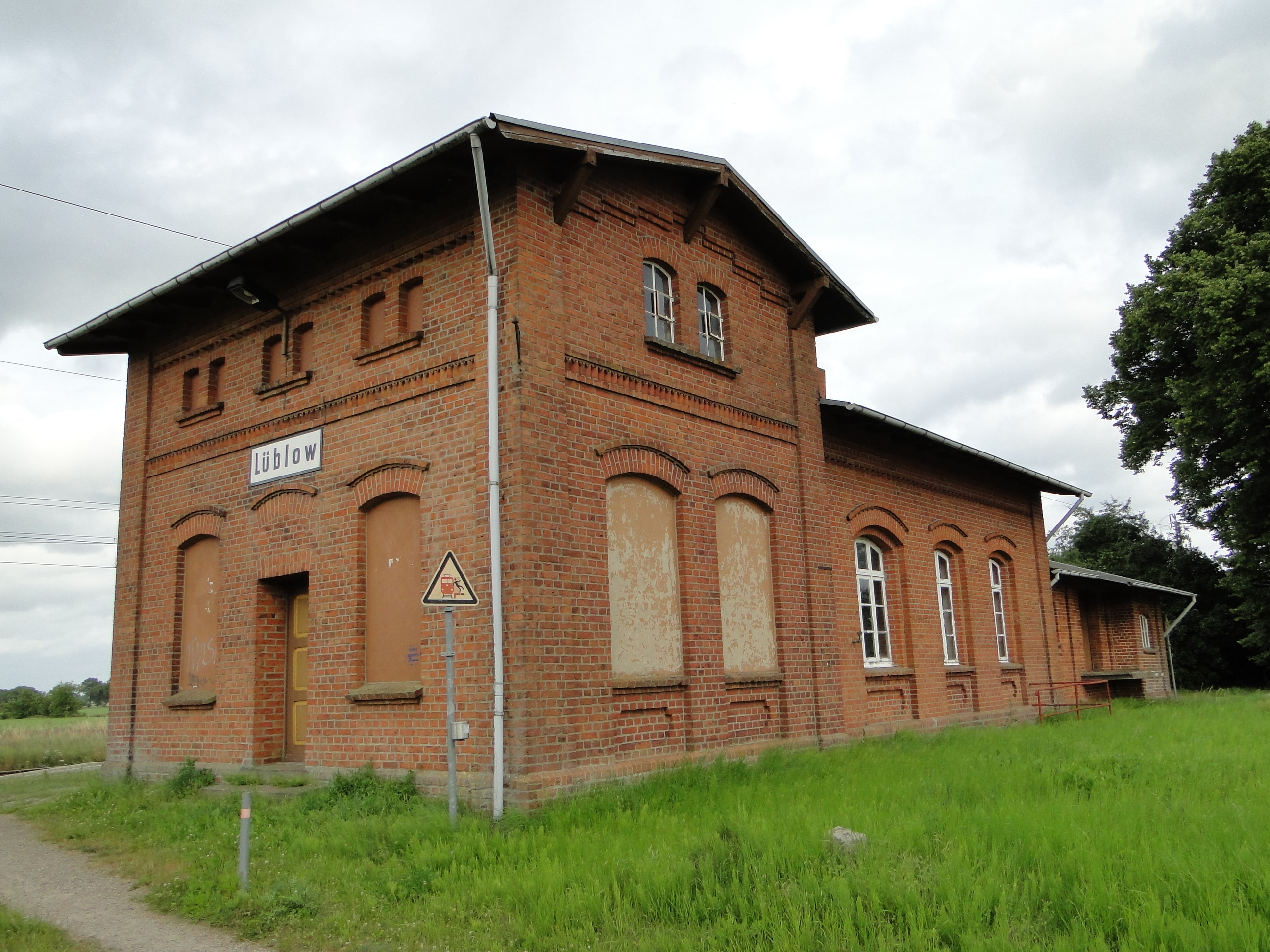 Train station Building in Lüblow, district Ludwigslust-Parchim, Mecklenburg-Vorpommern, Germany